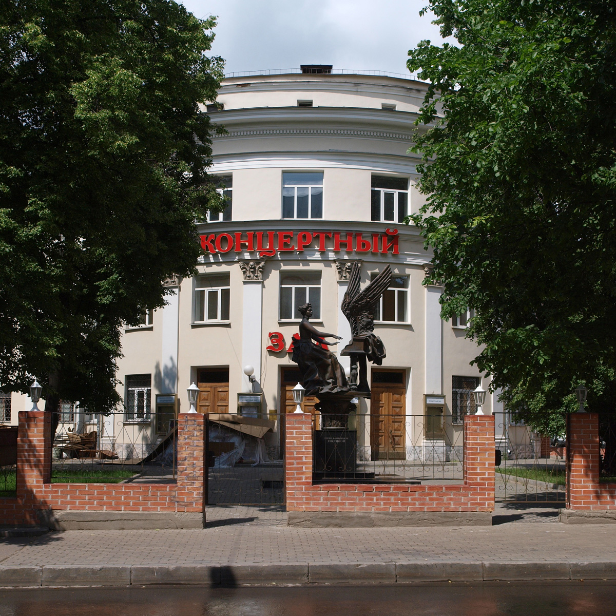 Povarskaya Street, Moscow - concert hall of the Gnesin Institute.